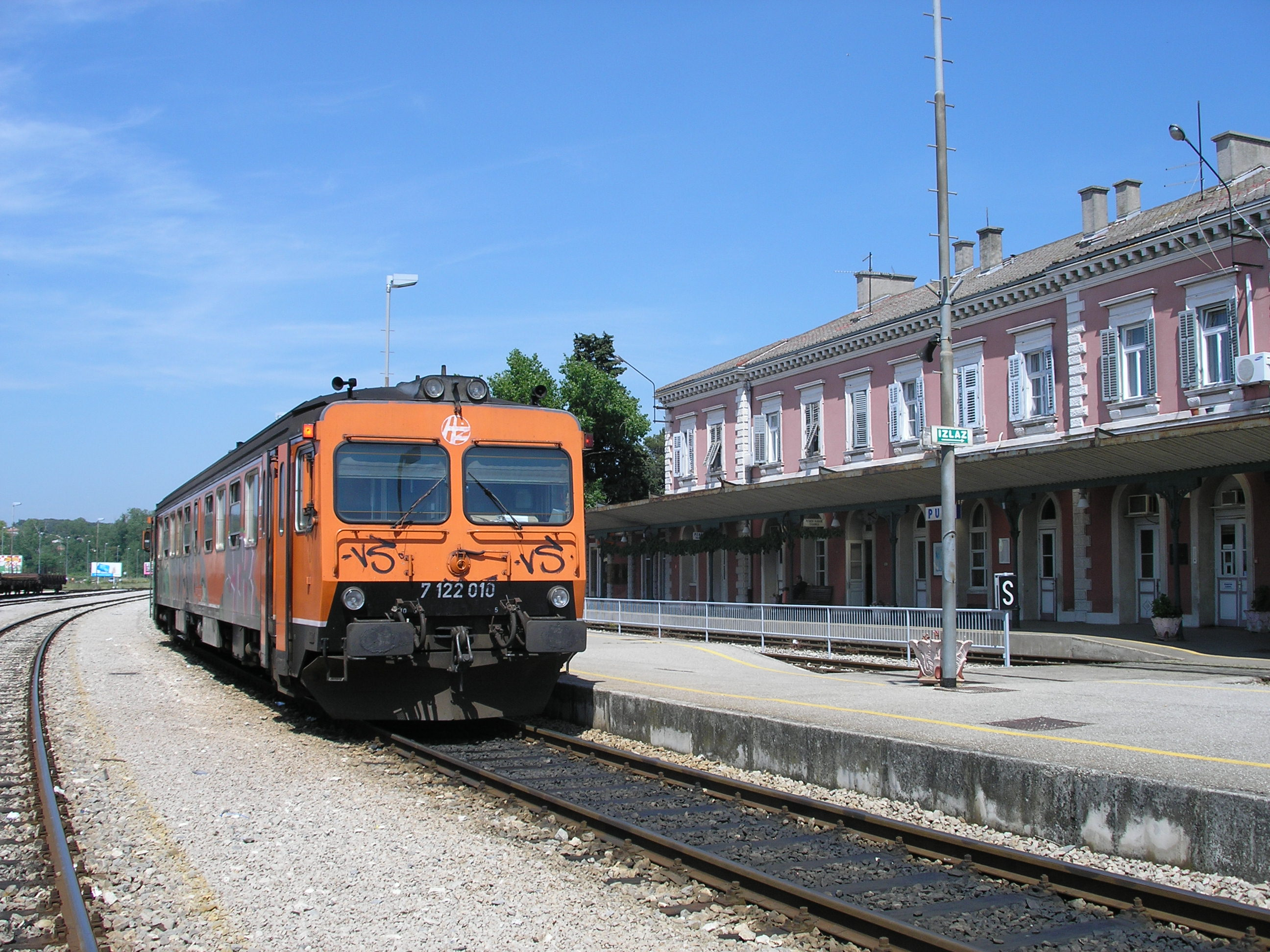 7122 series train (Kalmar Verkstad Y1) in Pula, Croatia